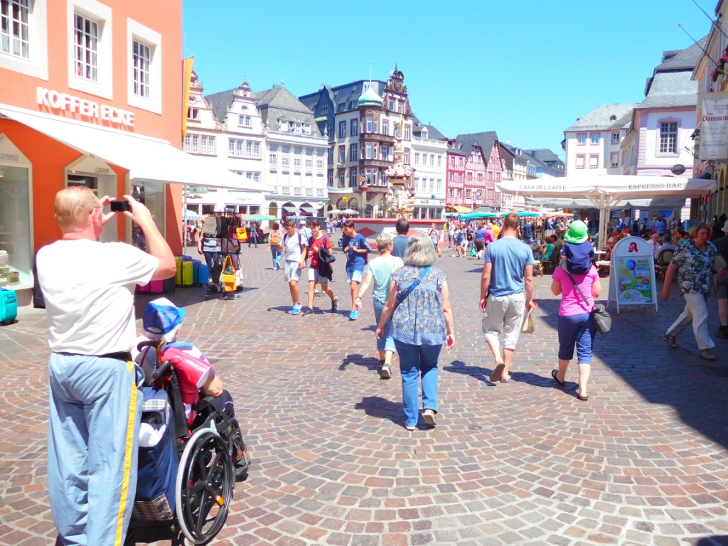 Tourists in Trier, Germany.